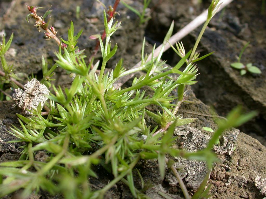 Deinostema violaceum(Scrophulariaceae) Japanese name:Sawatougarasi Date;2007,10,15;Outou,Tanabe city, Wakayama prefecture, Japan Author;Keisotyo